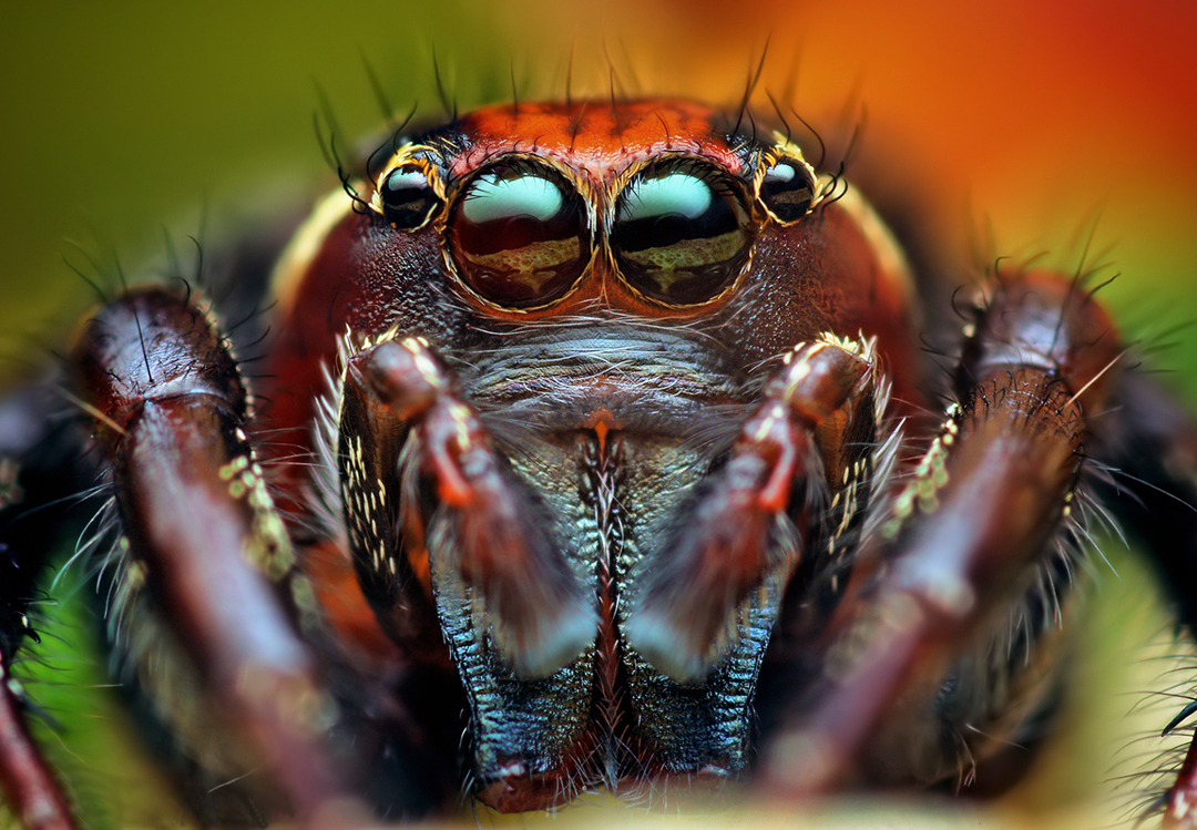 Thiodina puerpera What an odd looking jumper this guy was! From his long, descended, ever so slighlty metallic chelicerae, to his flame-like markings on top of his cephalothorax - he was definitely different. This guy was actually found by abikeOdyssey last August, and photographed back then - I've just now gotten around to editing all the photos I took (312 in total!) The image above was taken with the 28mm reversed on extension tubes (4:1 - 5:1?) and is just about full frame. The photo was focus stacked from two shots at f/8 or f/5.6, I can't remember. Make sure to tell me should the colors ever look odd on your monitor - I edit these photos on a laptop with a terrible lcd - the orange/red hues atop his head were actually quite vibrant - always a challenge to expose properly. If I get the chance, I plan on uploading a new video sometime soon to my youtube account where I post bug videos: ...and hopefully within the next few days, I will have more artwork up at my other flickr account